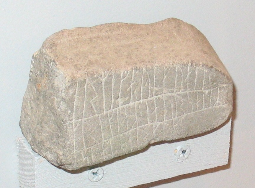 Runestone G 216 on exhibition in the musem Gotlands fornsal in Visby, Gotland, Sweden.